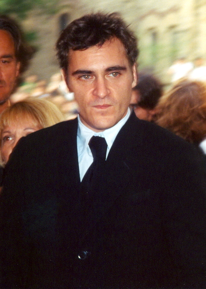 Joaquin Phoenix looking his usual grim self at the premiere of Walk The Line Premiere of Walk the Line, Toronto Film Festival 2005